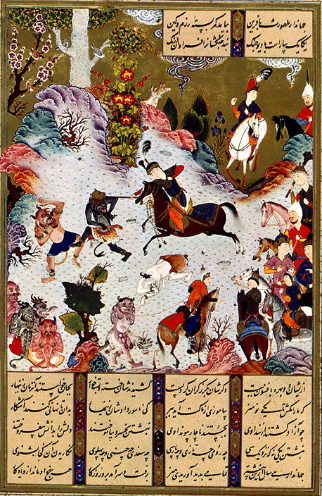 Tahmuras Defeats the Divs. Miniature from Shahname.